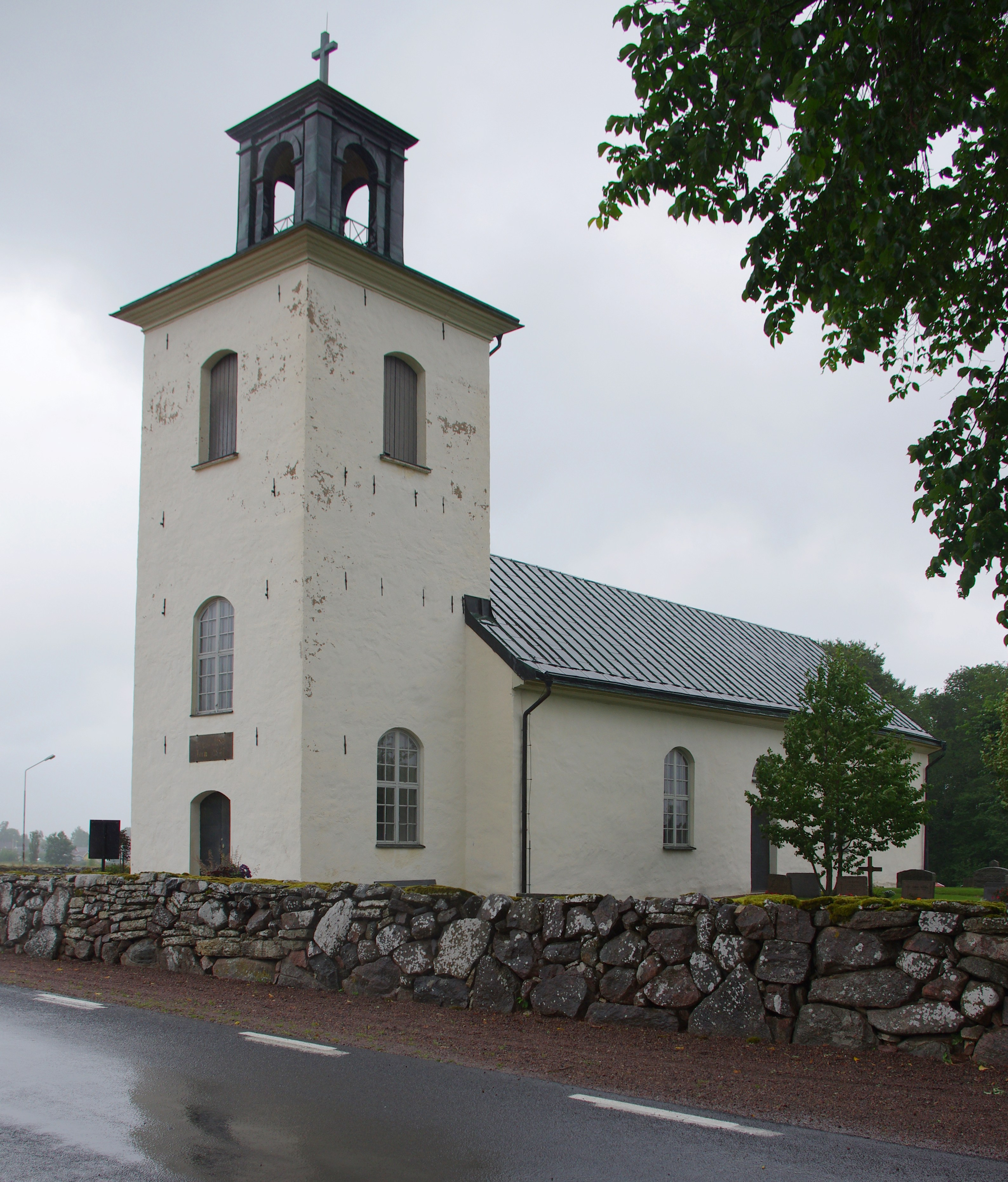 Norra Vings kyrka (english:Norra Ving church) in Västergötland and Skara municipality in Västragötaland county, Sweden.